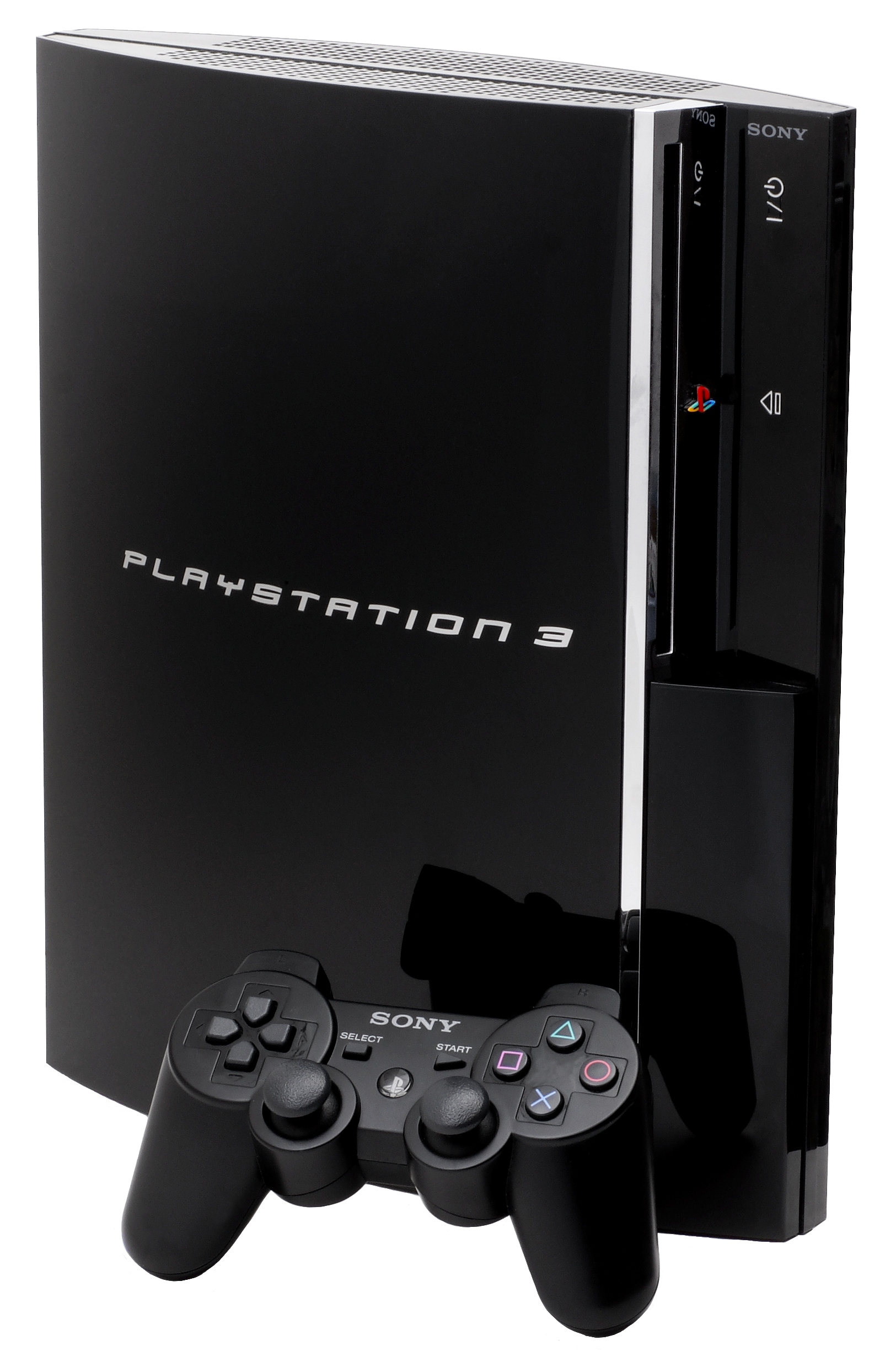 The original "fat" PS3. This is a 60GB model with backwards compatibility and memory card reader. Shown with the Sixaxis controller.